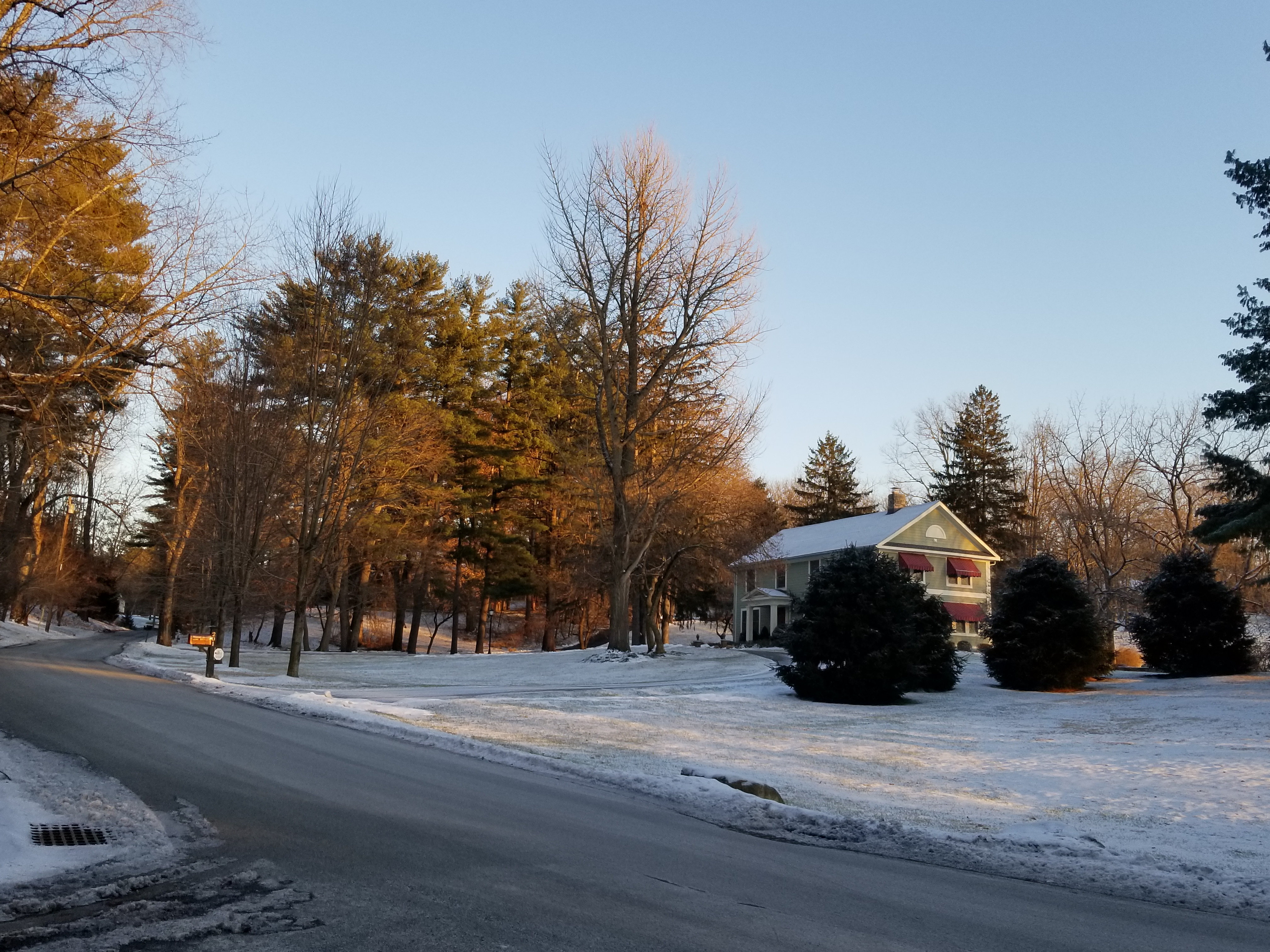 A residential road in Spackenkill, New York